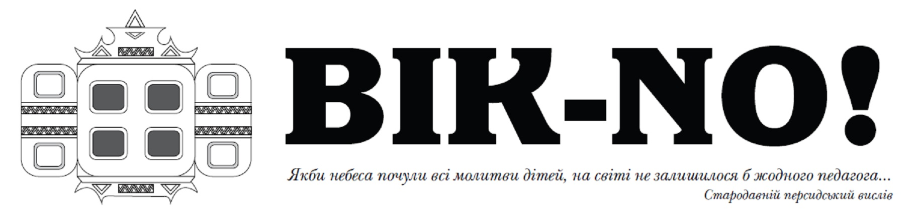 Vik-no-2006 (Monthly publication from Poltava university in Russia - now ceased)